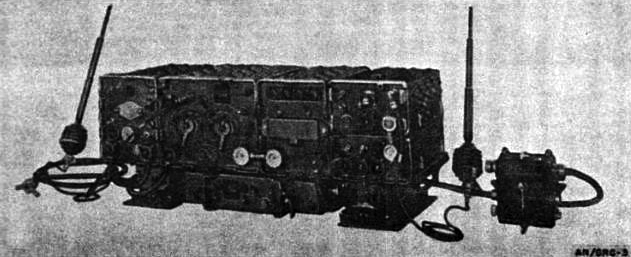 AN/GRC-3 US military vehicle radio set